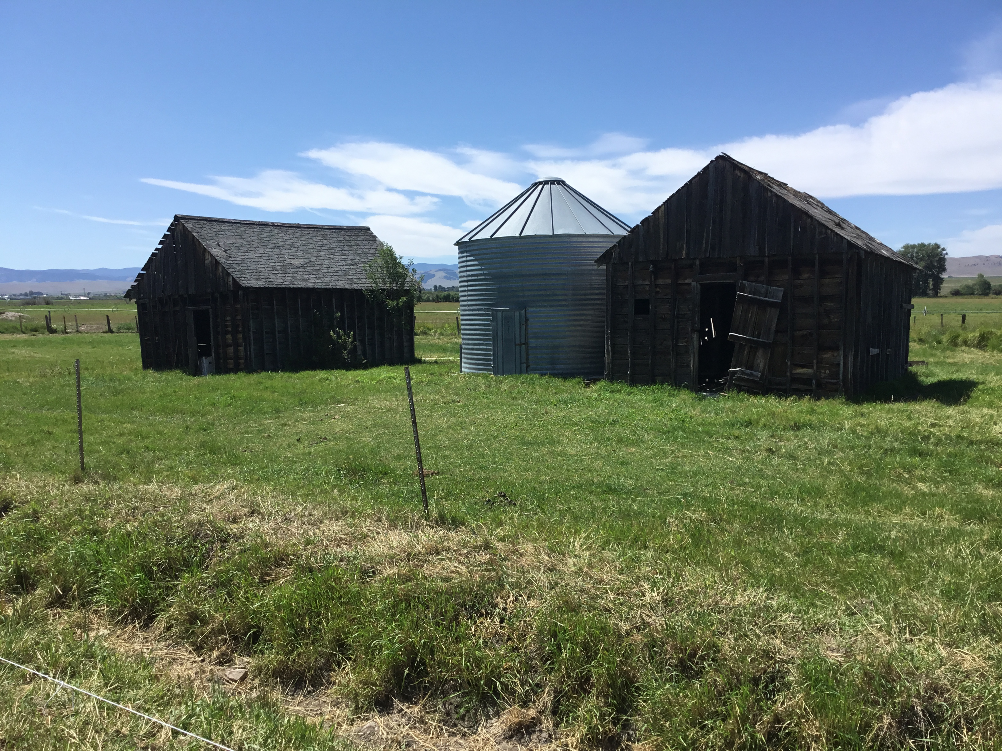 New Chicago MT